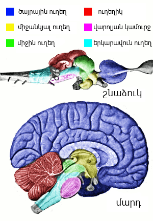 Main regions of the vertebrate brain, shown for a shark and a human brain (the human brain is sliced along the midline). The two brains are not on the same scale. (in Armenian)